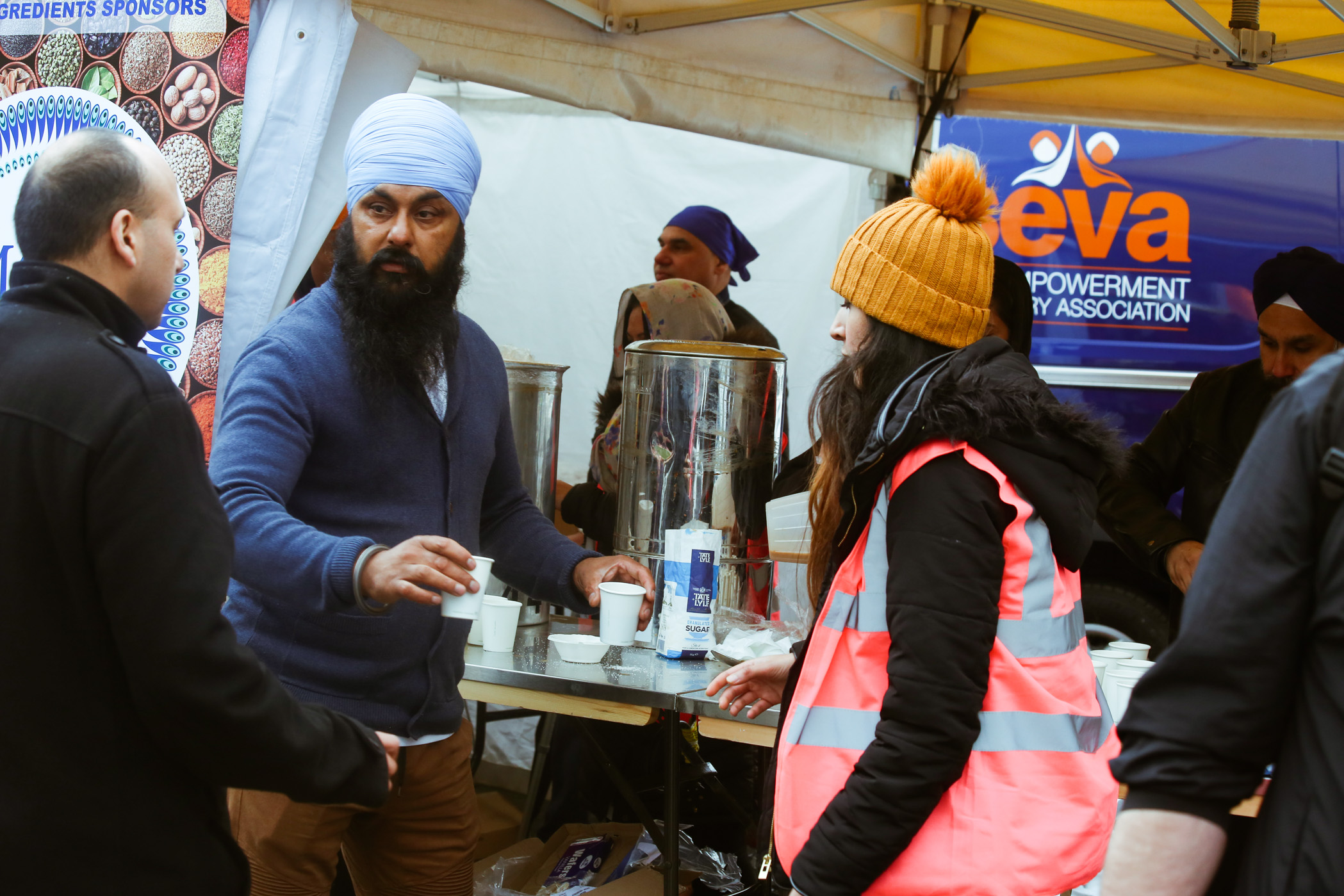 Sikhs distributing langar (free food) in London